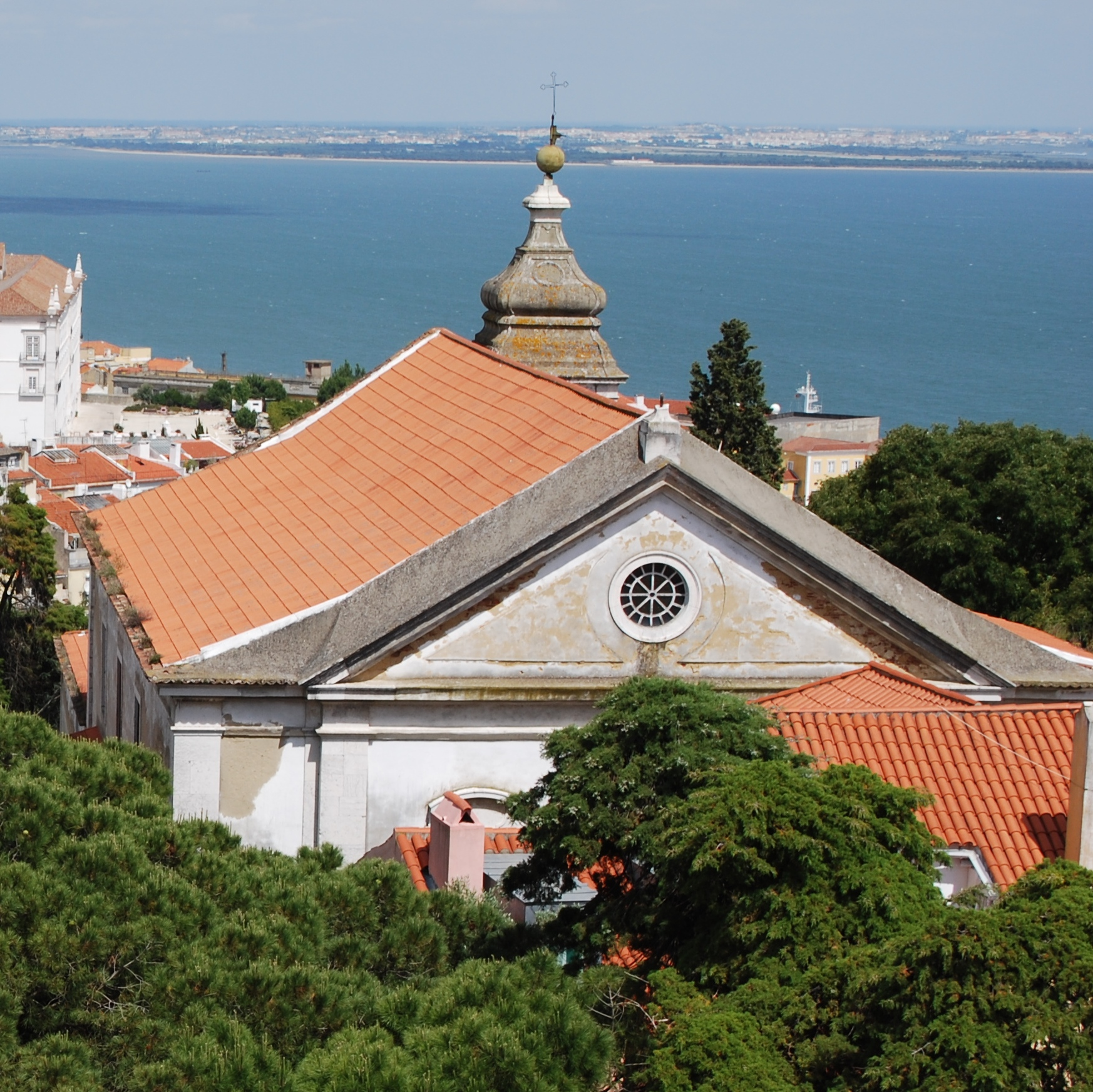 This file was uploaded for Wiki Loves Monuments in Portugal with the unique identifier 97011281.